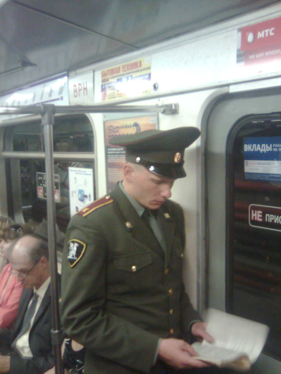 Internal troops of Ministry of the Internal affairs officer-in-study